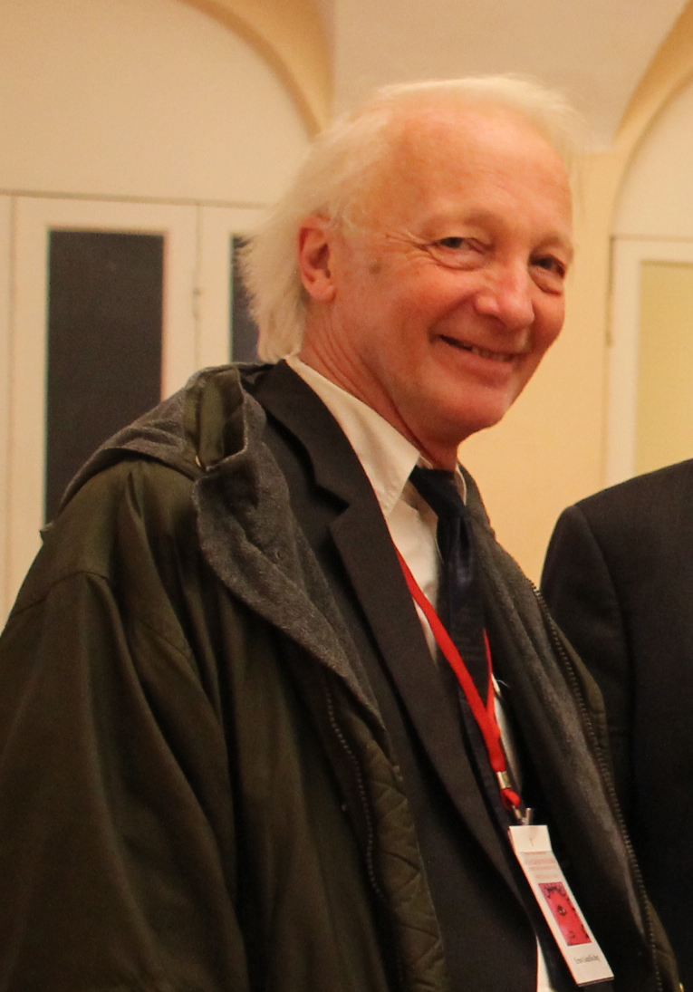 Ernst Gamillscheg (Byzantinist) during the International Conference "Actual problems of the theory and history of art" St.Peterburg 2014